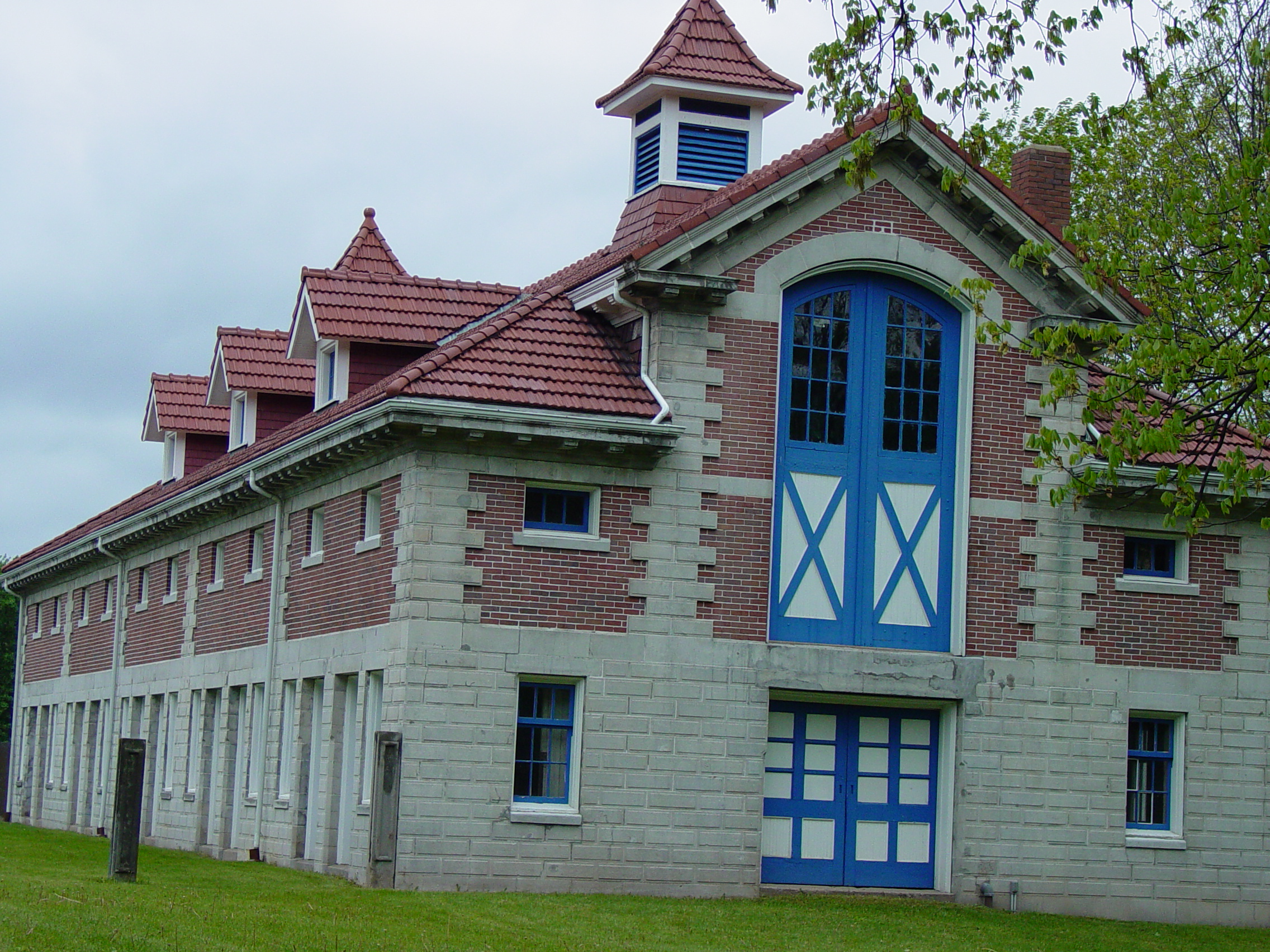 Barberton Barber Farm Barn Josh Dague